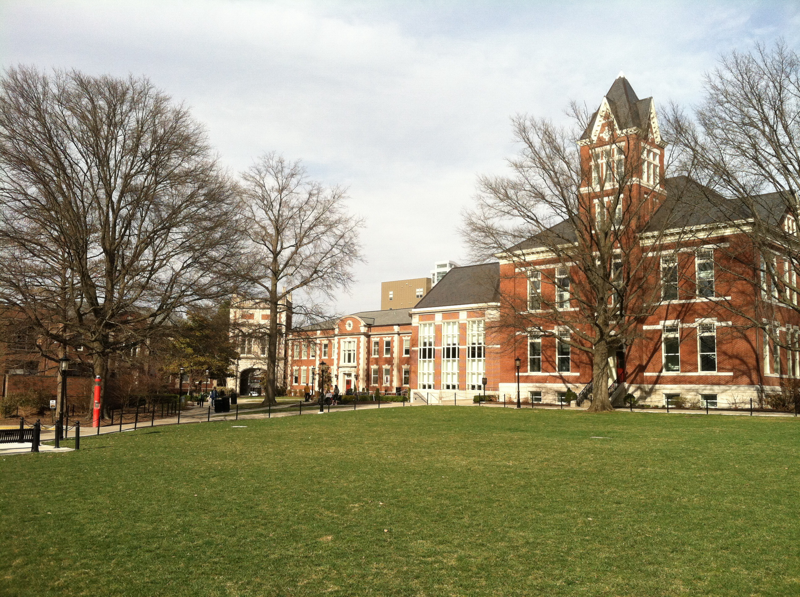 Former law barn, and journalism school at the university of missouri